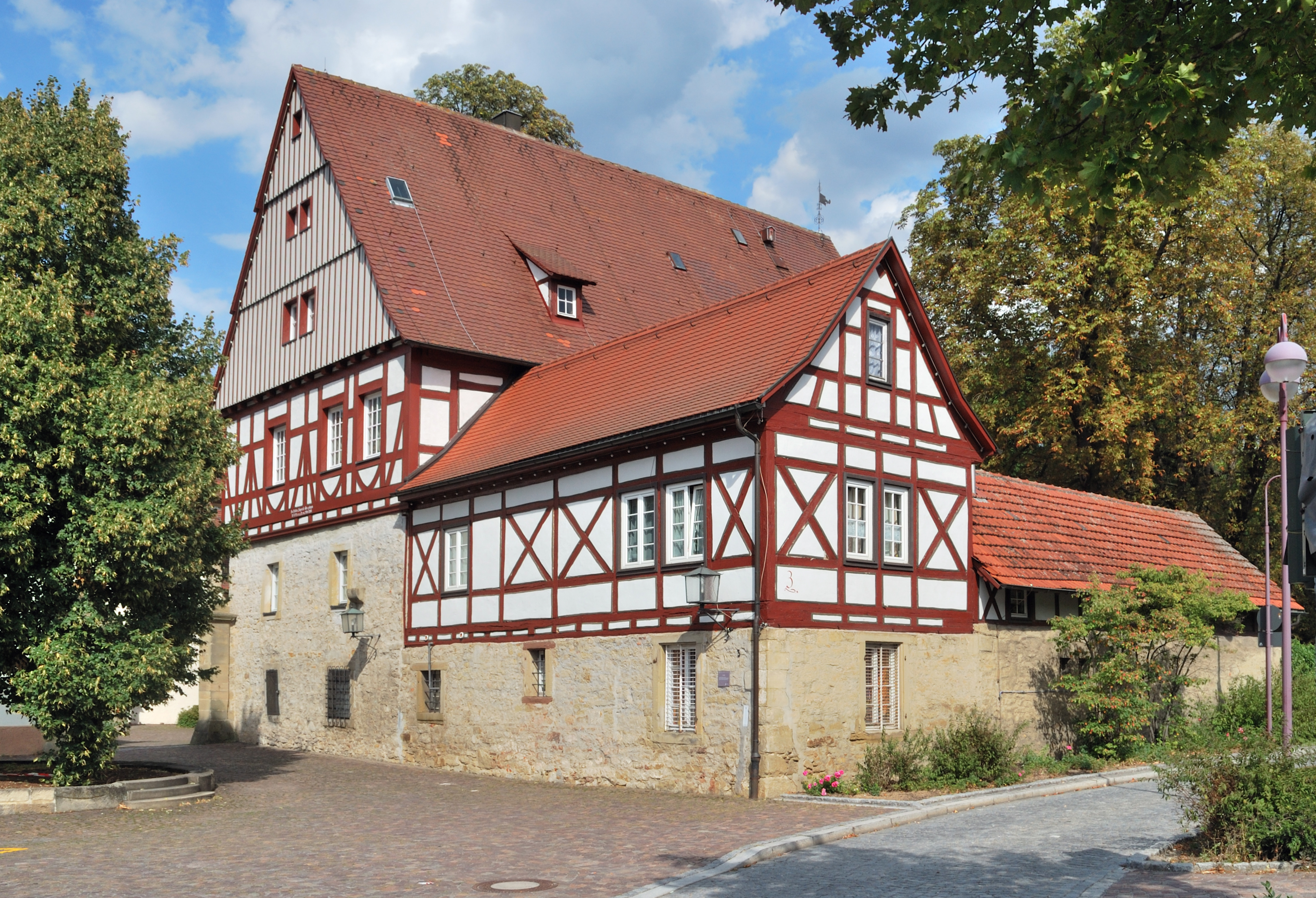 The 'Neue Bau' in Hemmingen in the German Federal State Baden-Württemberg. Built in 1542 by Ludwig von Nippenburg.